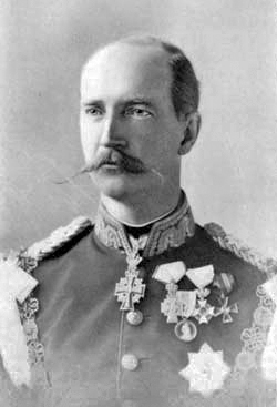 Georgios I, King of Greece (b.1845-d.1913)